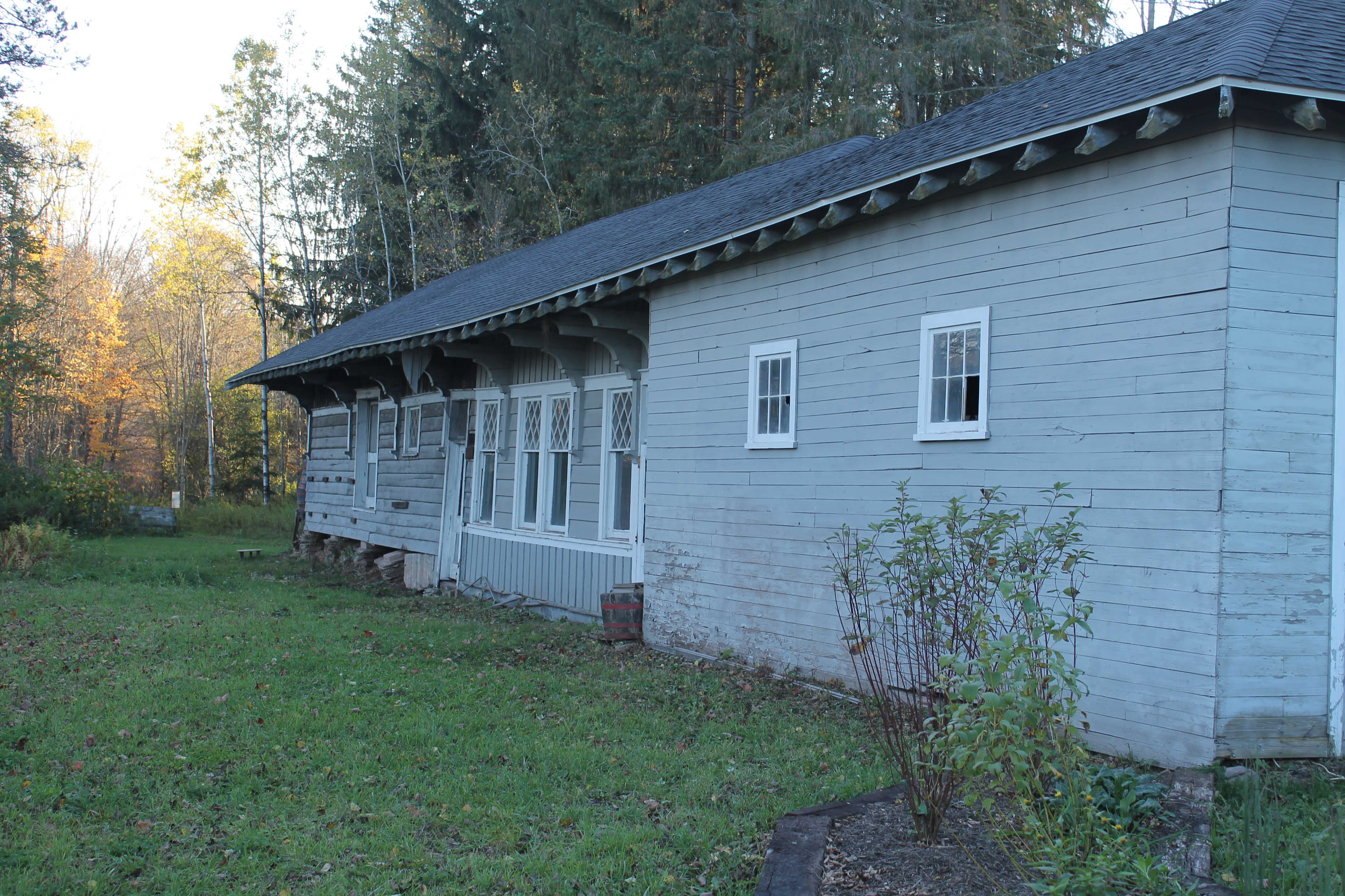 Andes Station, Andes NY